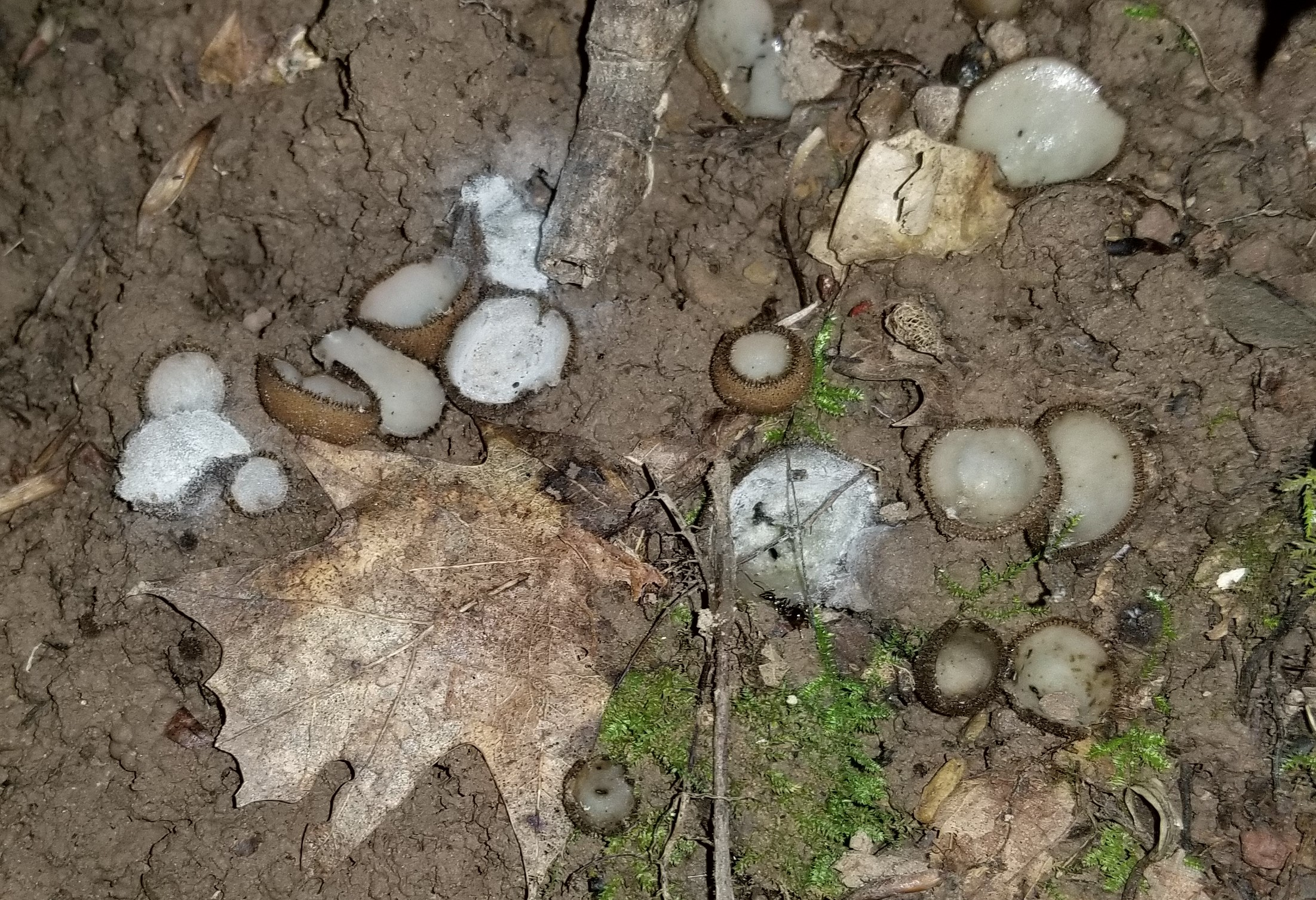 Hypomyces stephanomatis Rogerson & Samuels Image location: Spruce Knob-Seneca Rocks National Recreation Area, Monongahela National Forest, West Virginia, USA Growing on Humaria hemisphaerica observation 325155. Locally abundant. Recognized by sight For more information about this, see the observation page at Mushroom Observer.